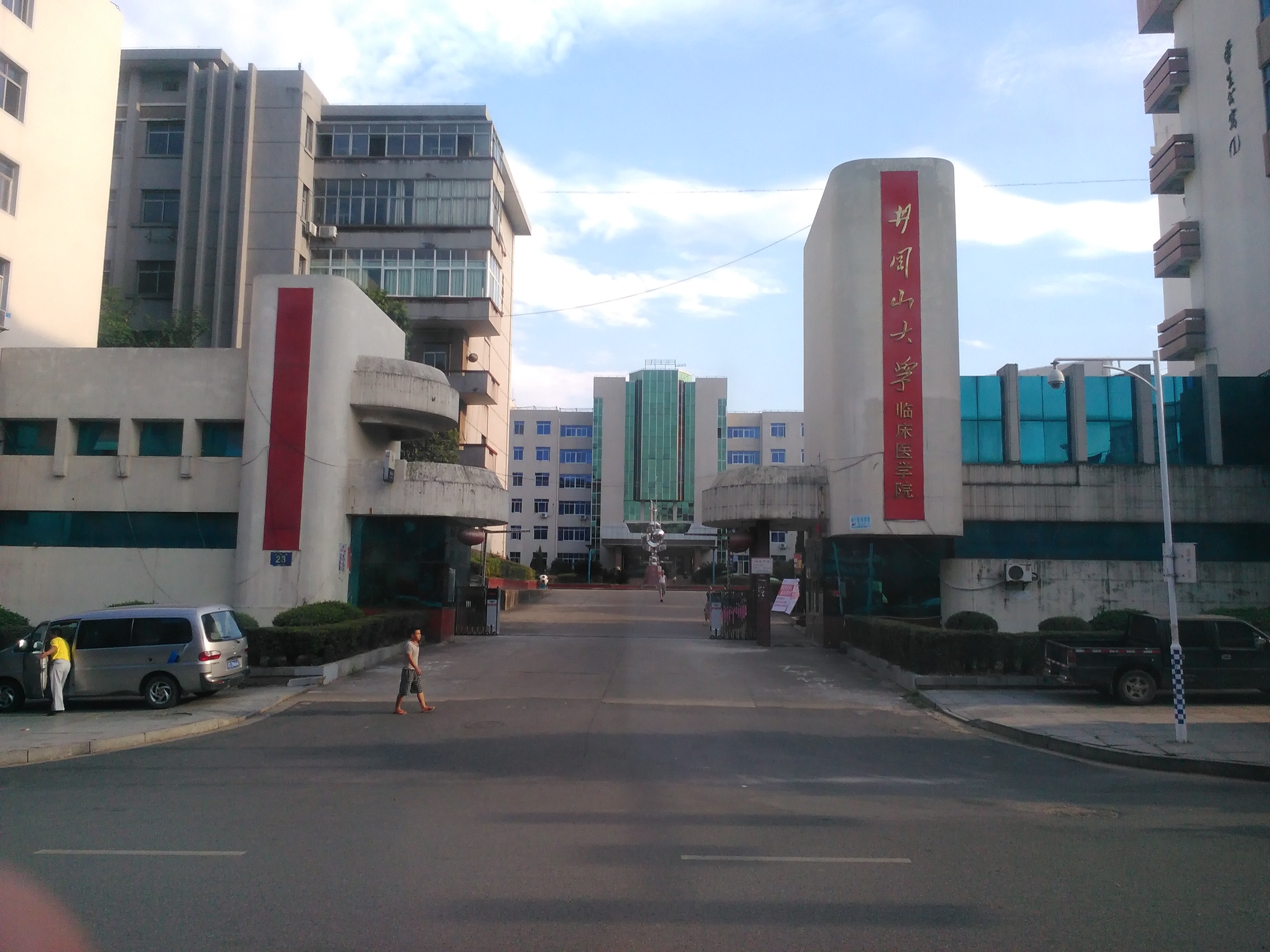 Jinggangshan University Medical School